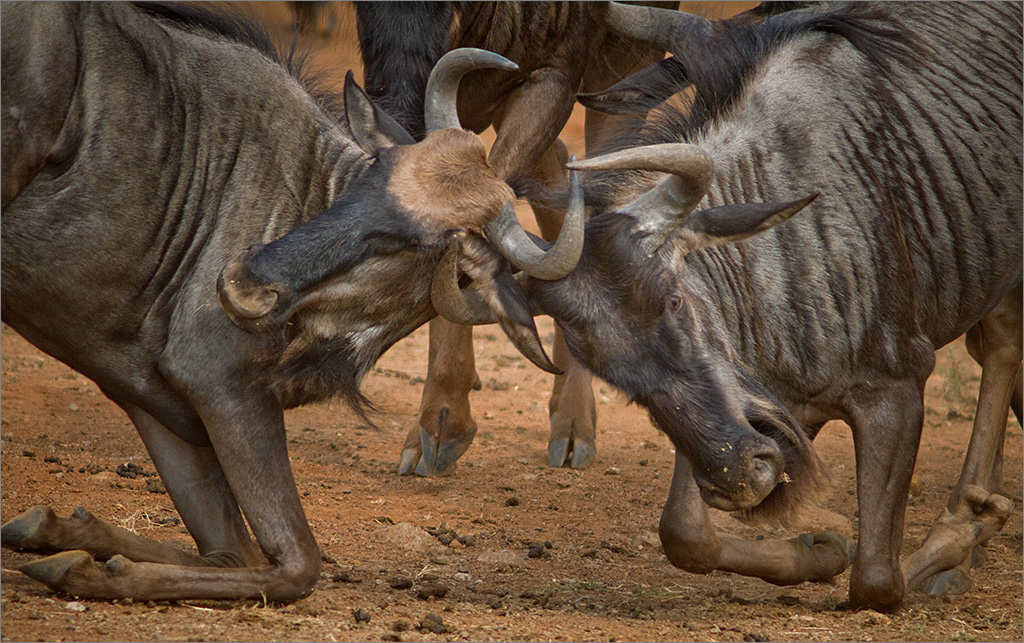 Blue wildebeest (Connochaetes taurinus), also called the common wildebeest, white-bearded wildebeest or white tailed gnu, photo was taken at Pilanesberg Game reserve in the Limpopo (South Africa) next to Sun City.